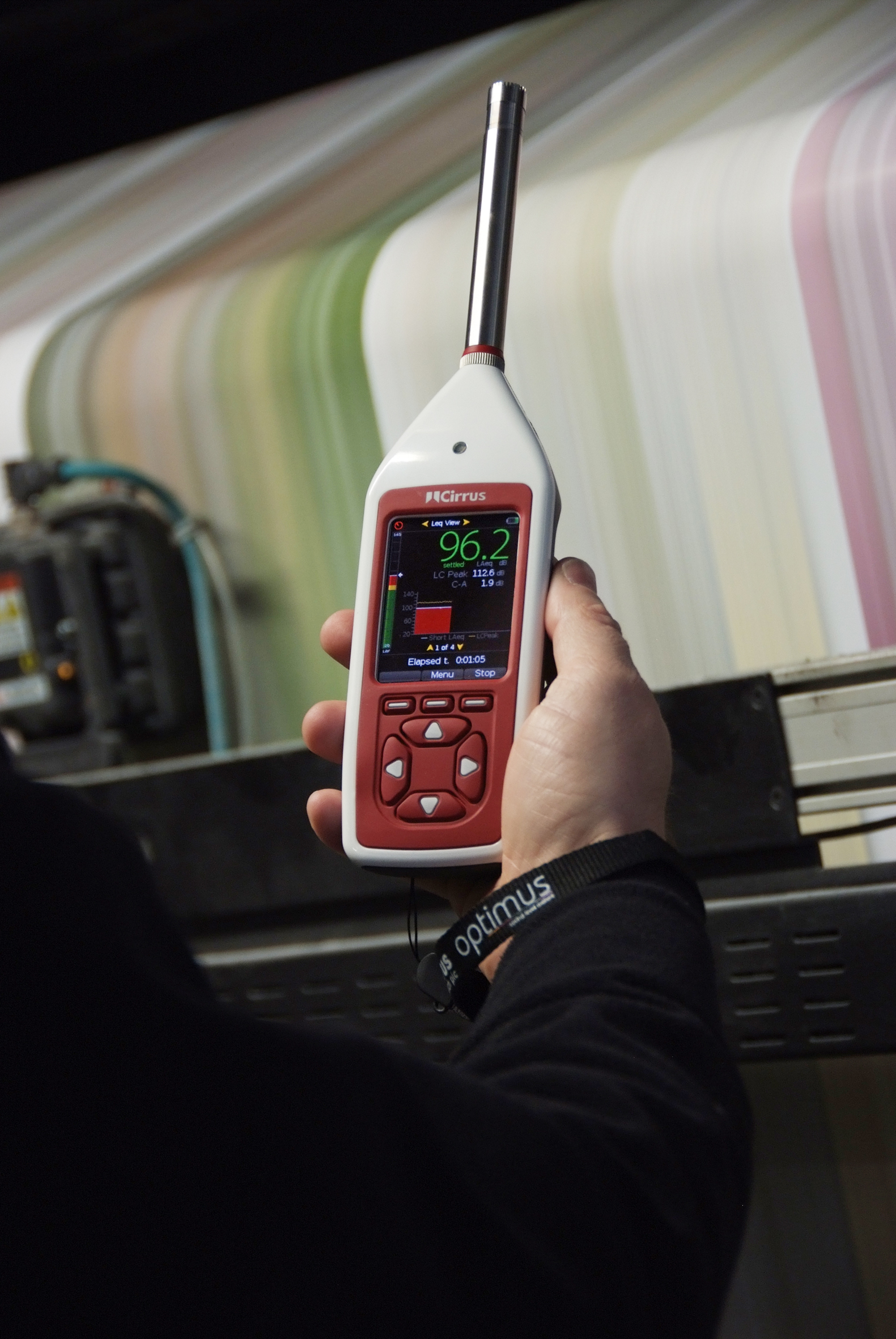 An integrating-averaging cirrus optimus sound level meter complying with IEC 61672 : 2003